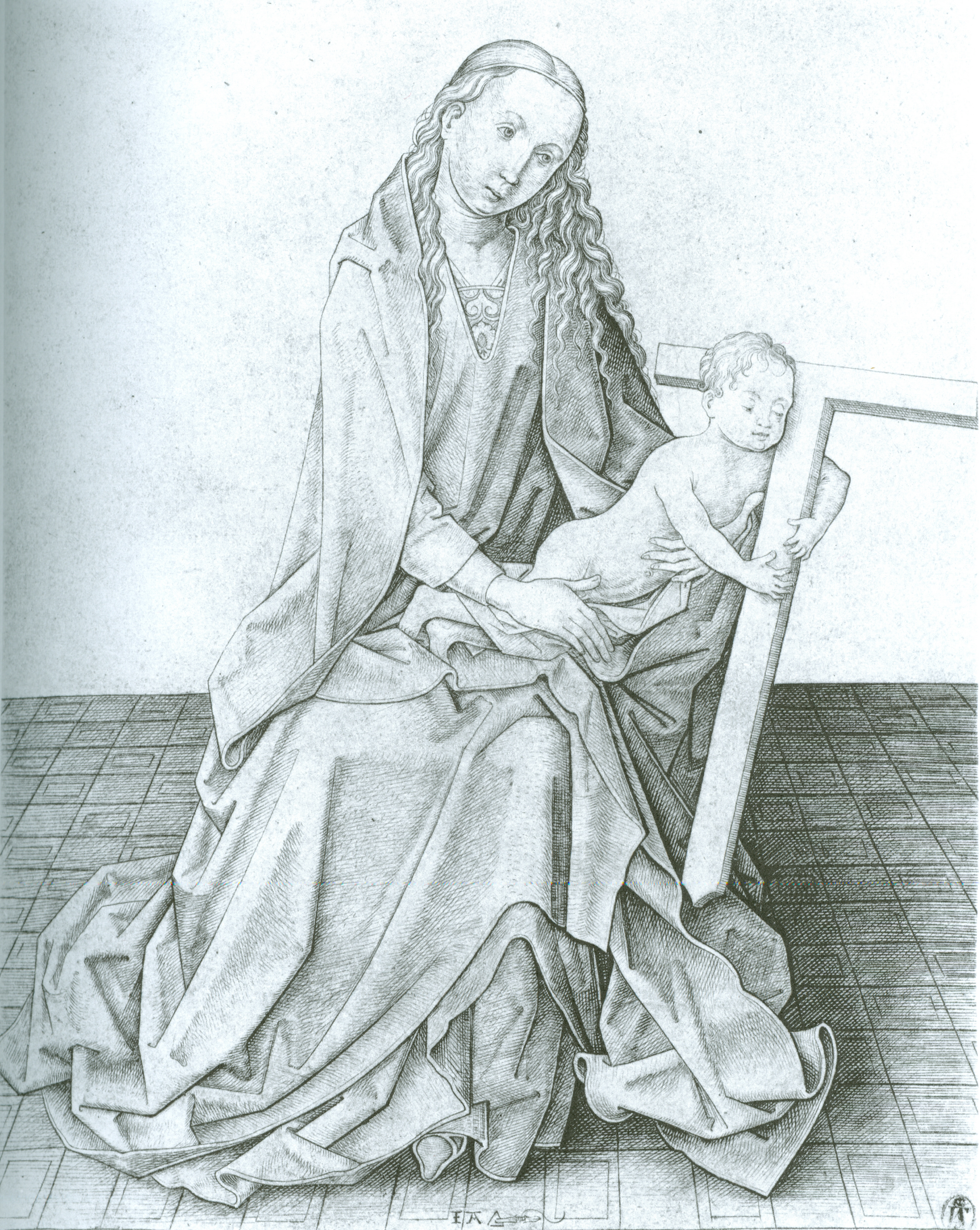 The Madonna Seated, the Christ Child Holding a Cross. Engraving, 21.8 x 17.7 cm (sheet size). This impression is in the collection of the Cincinnati Art Museum.